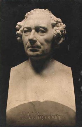 Theodor August Jes Regenburg (1815-1895), Danish jurist, civil servant, and district officer